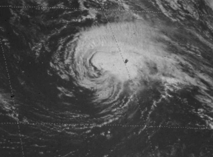 Hurricane Emmy in the central Atlantic Ocean as a Category 2 hurricane